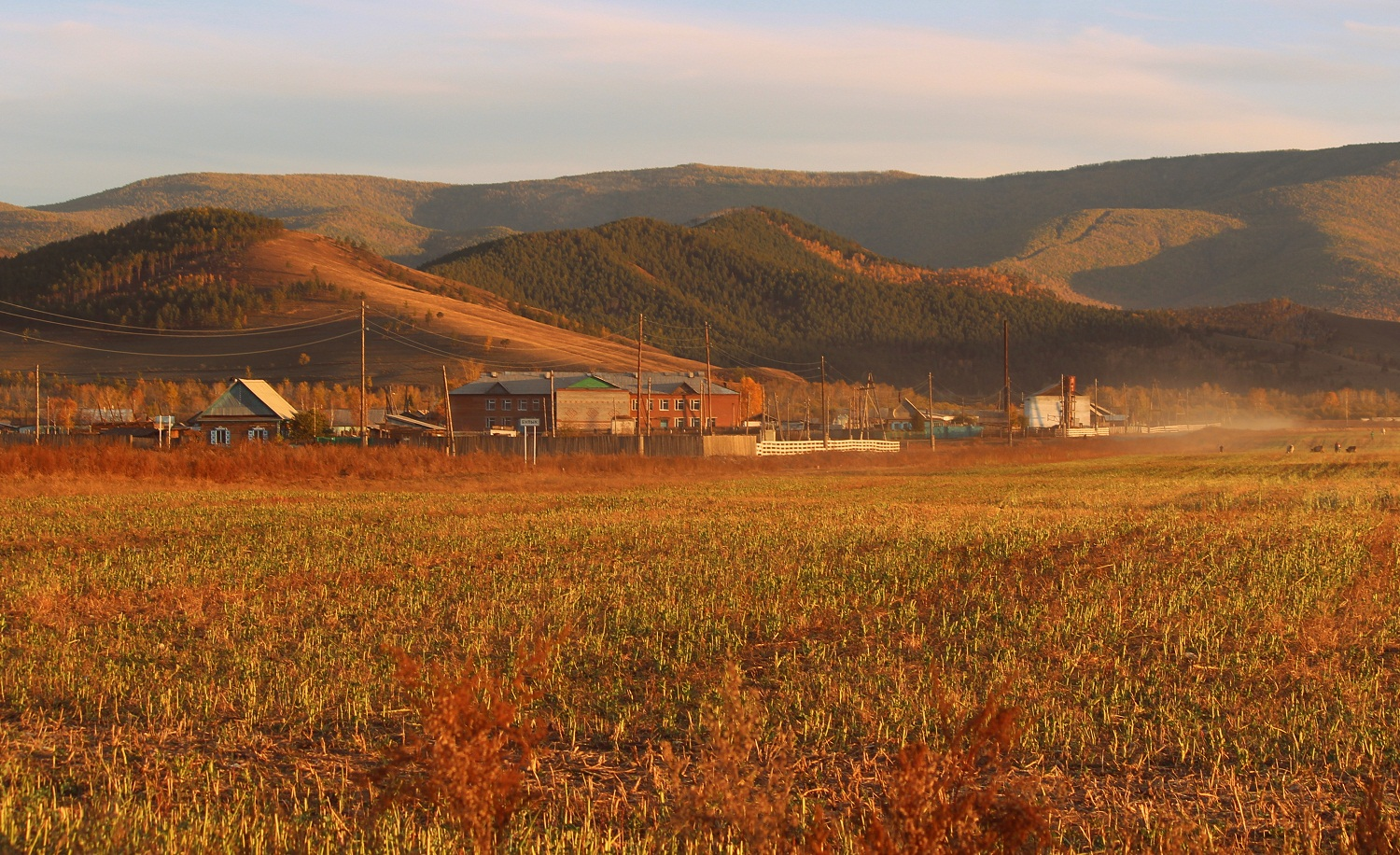 Окрестности села Булык. Джидинский район. Бурятия